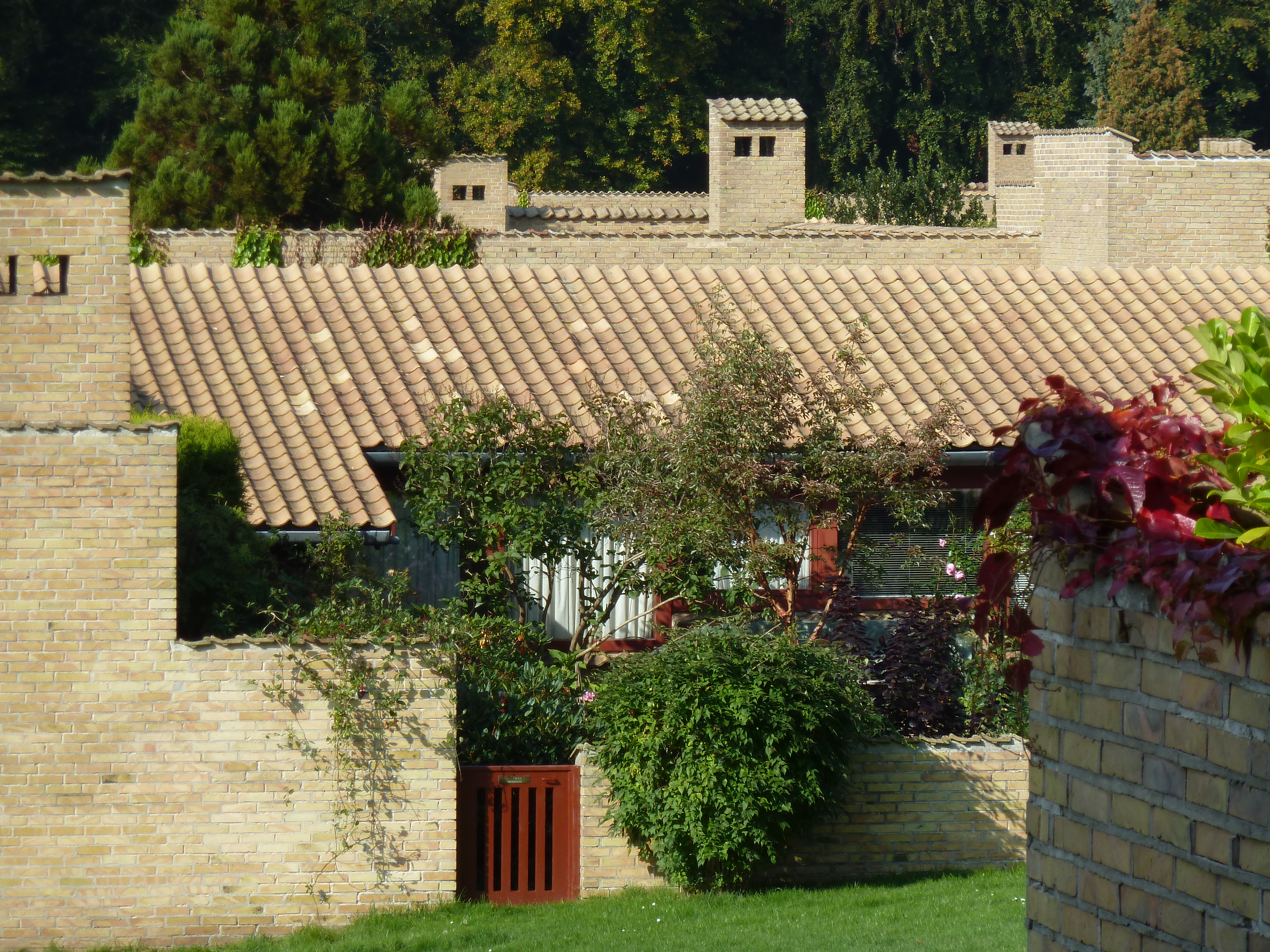 Jørn Utzon's Fredensborg Houses (Fredensborghusene) in Fredensborg, Denmark